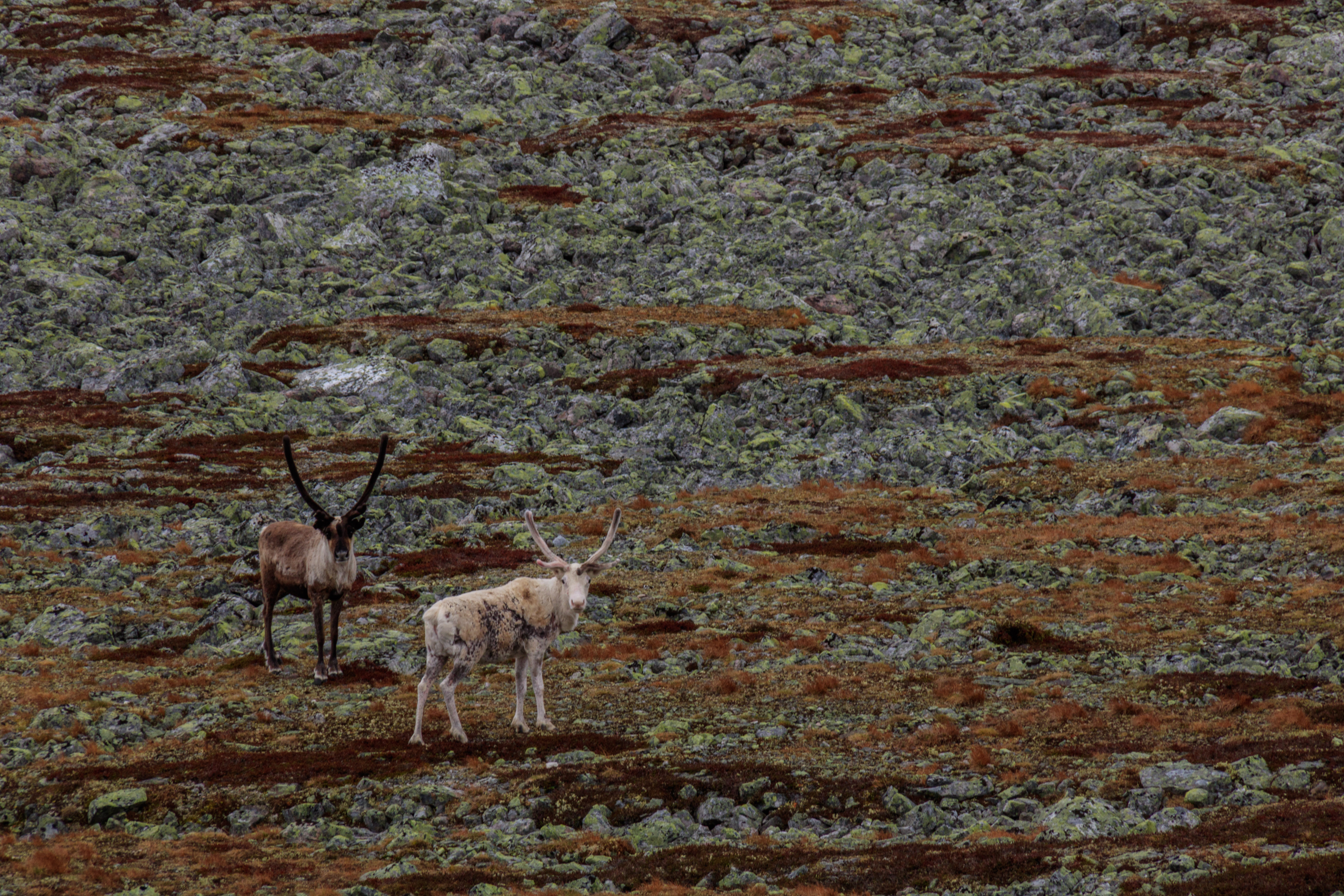 Reindeers in Sånfjällets national park